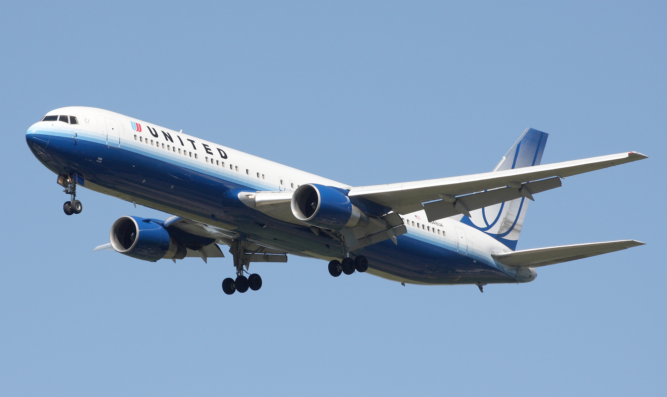 United Airlines Boeing 767-322ER.